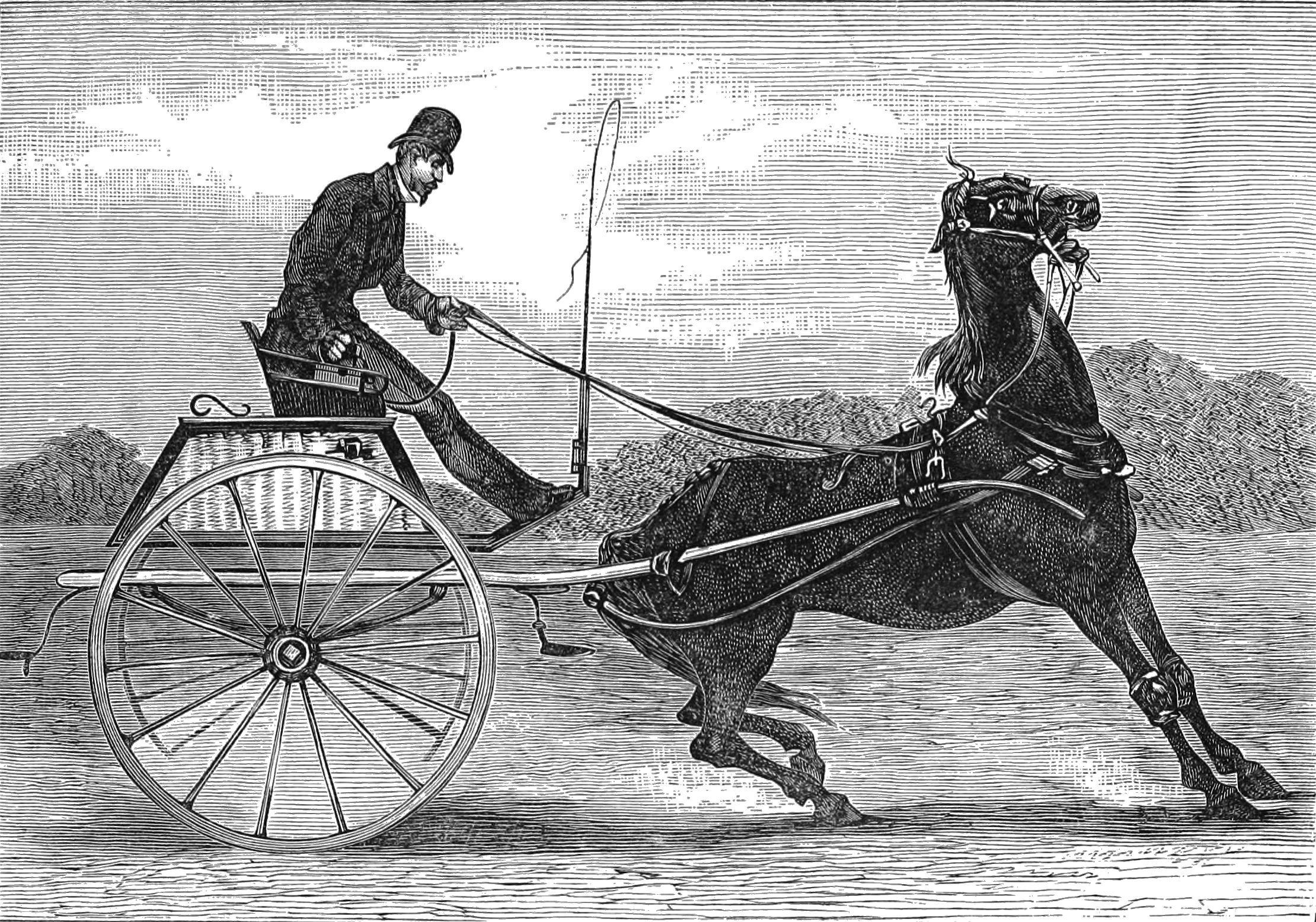 Controlling an unruly horse by electrical shock